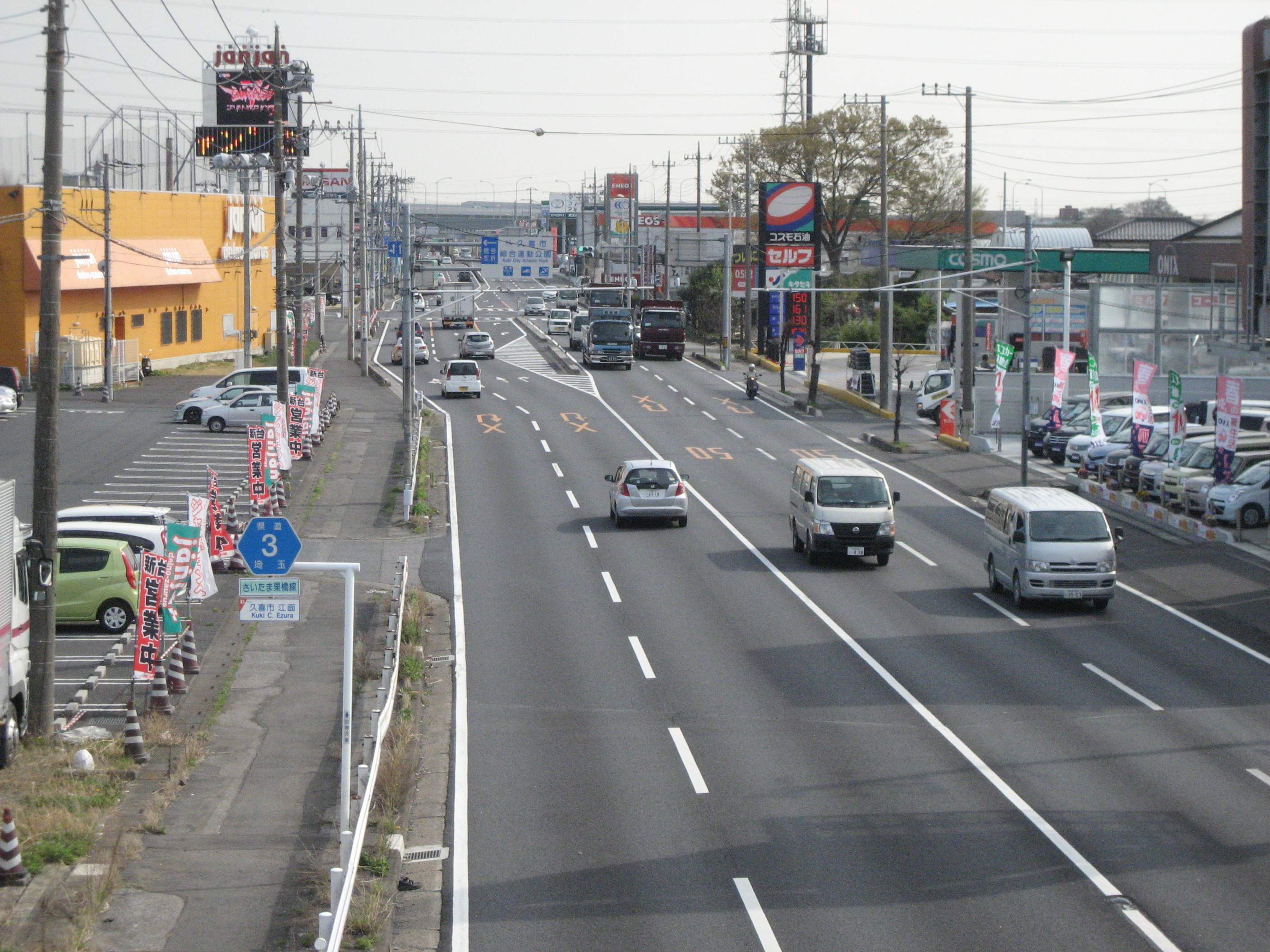 The Saitama Prefectural Road Route 3 in Ezura, Kuki City